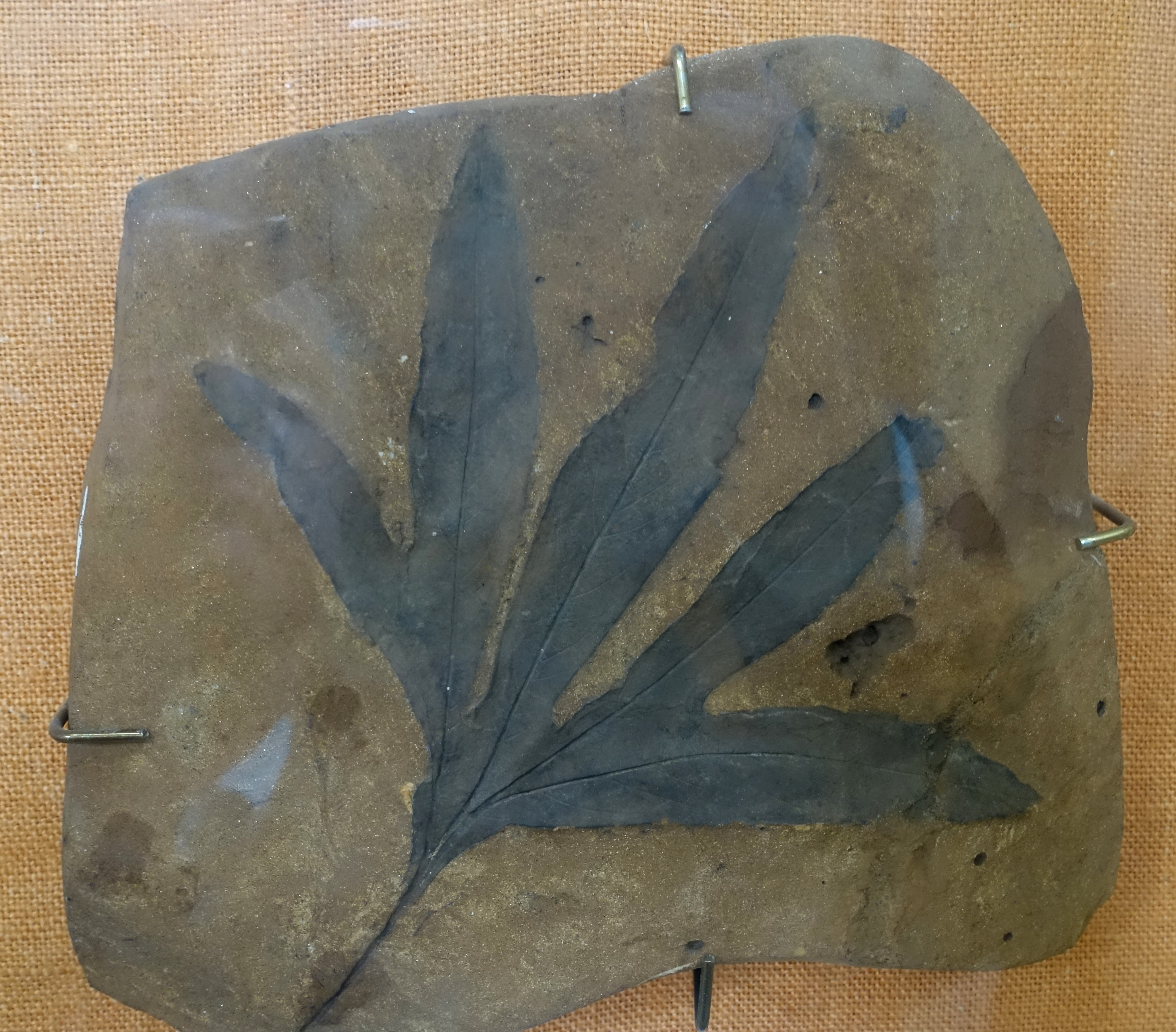 Exhibit in the Redpath Museum, McGill University - Montreal, Quebec, Canada.